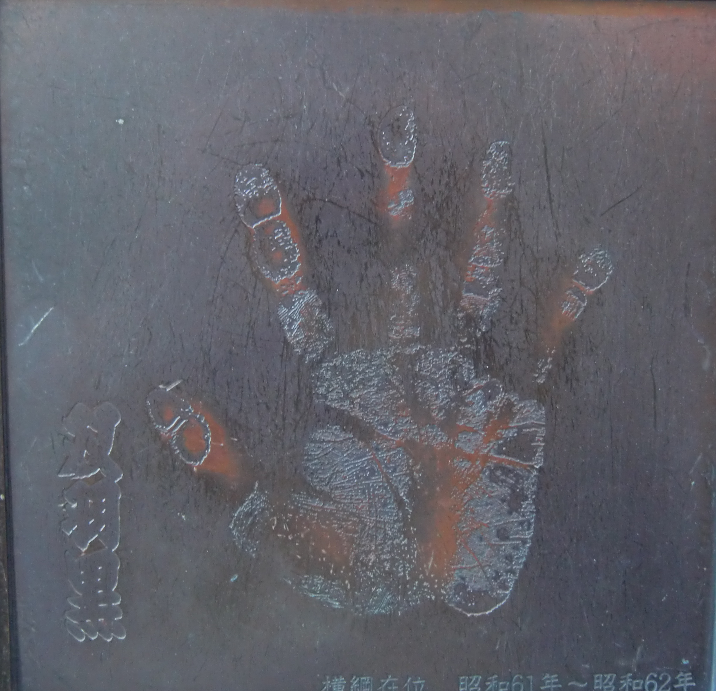 photo taken of wrestler's handprint from public monument in Ryogoku, Tokyo